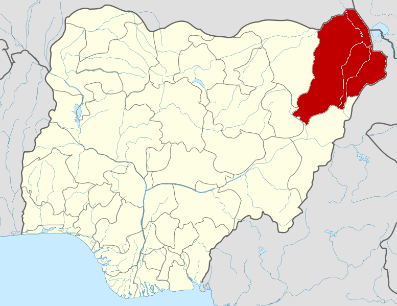 Map locator of Nigeria.